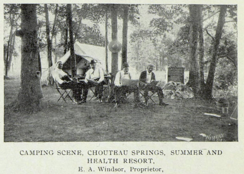 Scene of campers in 1915 at the Chouteau Springs Resort, Cooper County, Missouri. Published in the Standard Atlas of Cooper County, 1915, p. 83.